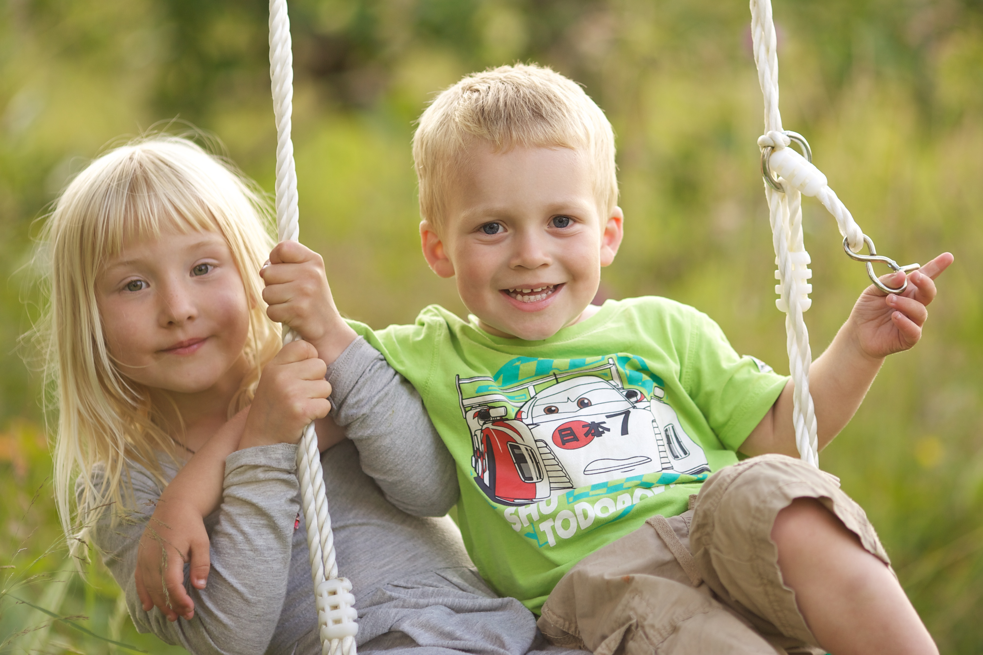 Crowded swing